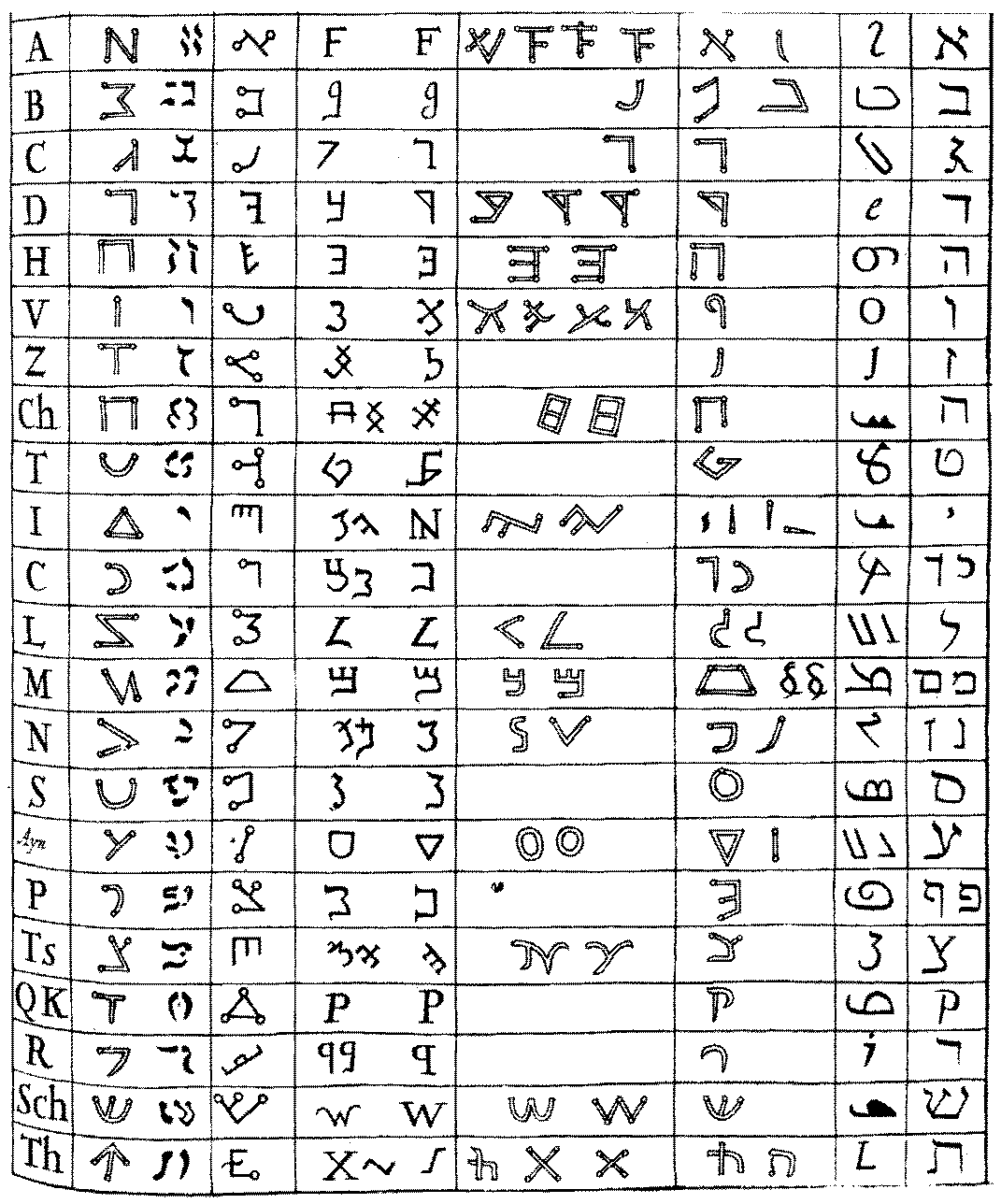 Illustration in Athanasius Kircher's Turris Babel